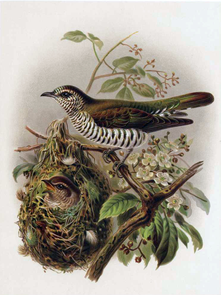 Pīpīwharauroa or Shining cuckoo, Chrysococcyx lucidus.